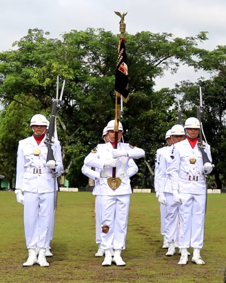 Indonesian army kostrad colour guard